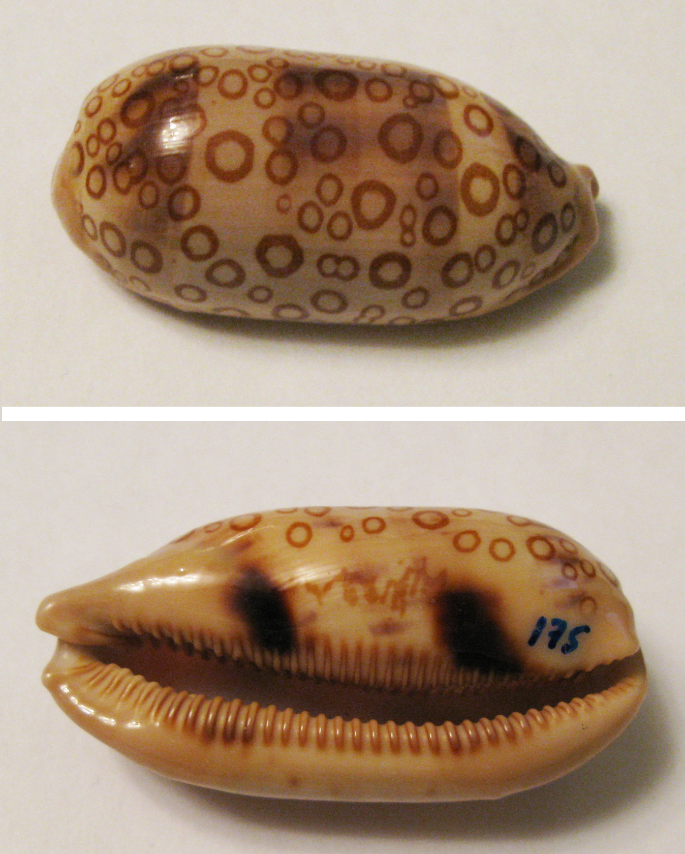 Cypraea argus